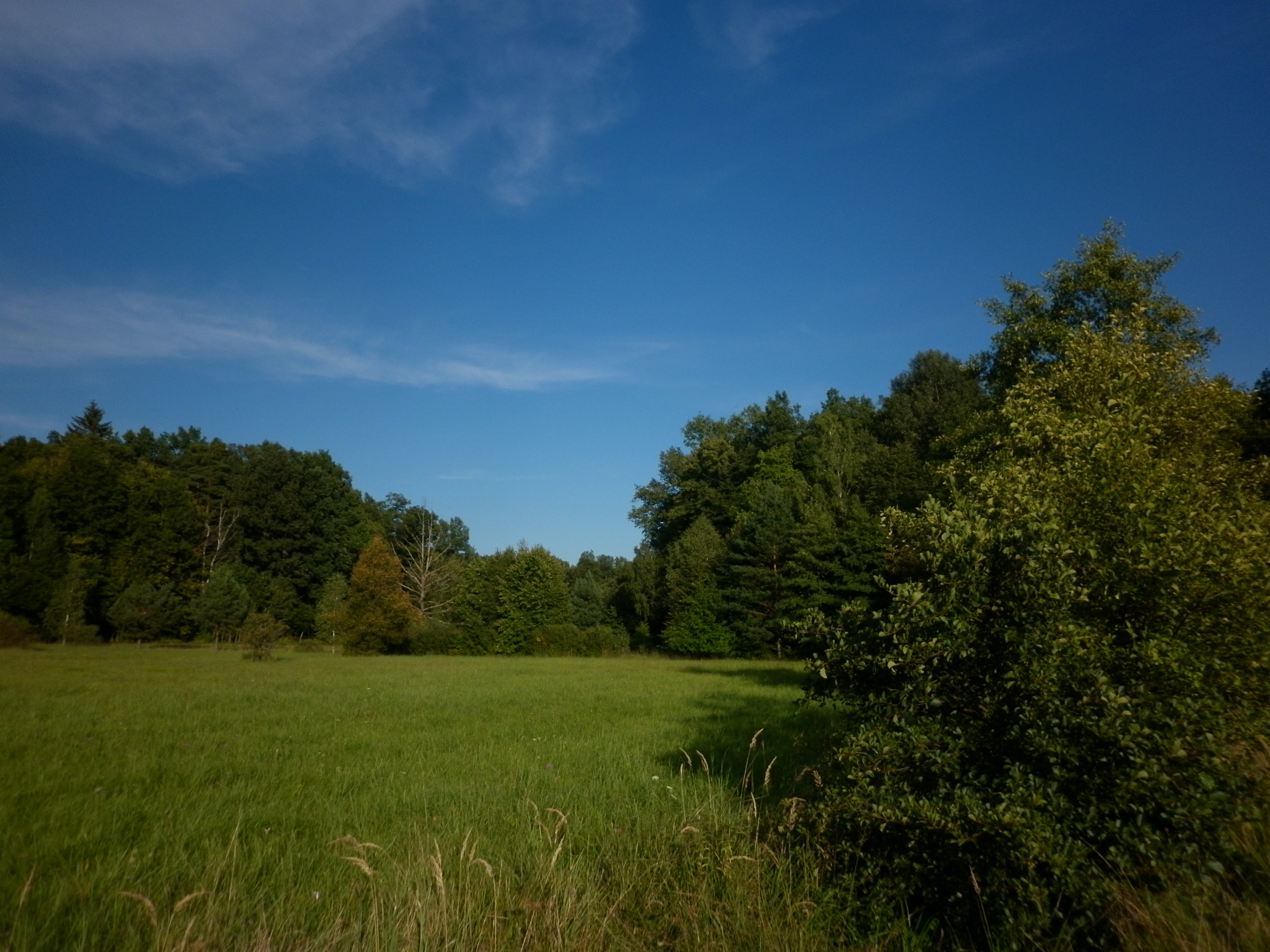 Nature reserve "Mazurovy chalupy" in Pardubice District, Czech Republic. Wet meadows and extensive pastures with rare plant and animal species.